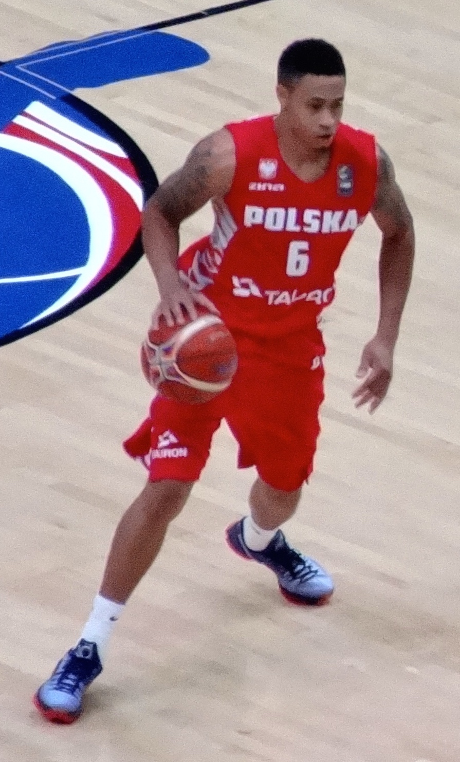 A. J. Slaughter